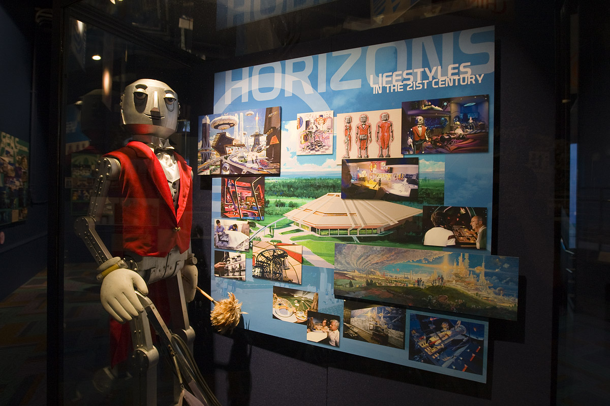 Another Disney ride long-since replaced.